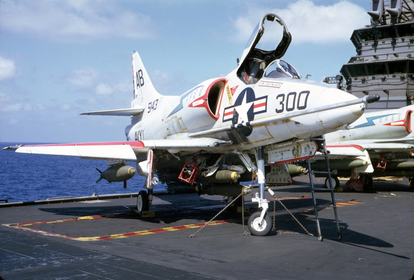 A U.S. Navy Douglas A-4C Skyhawk (BuNo 145143) from Attack Squadron VA-172 Blue Bolts is fully armed with bombs on the flight deck of the aircraft carrier USS Franklin D. Roosevelt (CVA-42) off Vietnam, in 1966. This aircraft was lost on 2 December 1966, when it was shot down by a North Vietnamese SA-2 missile during a night reconnaissance mission over the Red River delta. The pilot, Commander Bruce A. Nystrom, VA-172's Commanding Officer, was killed.